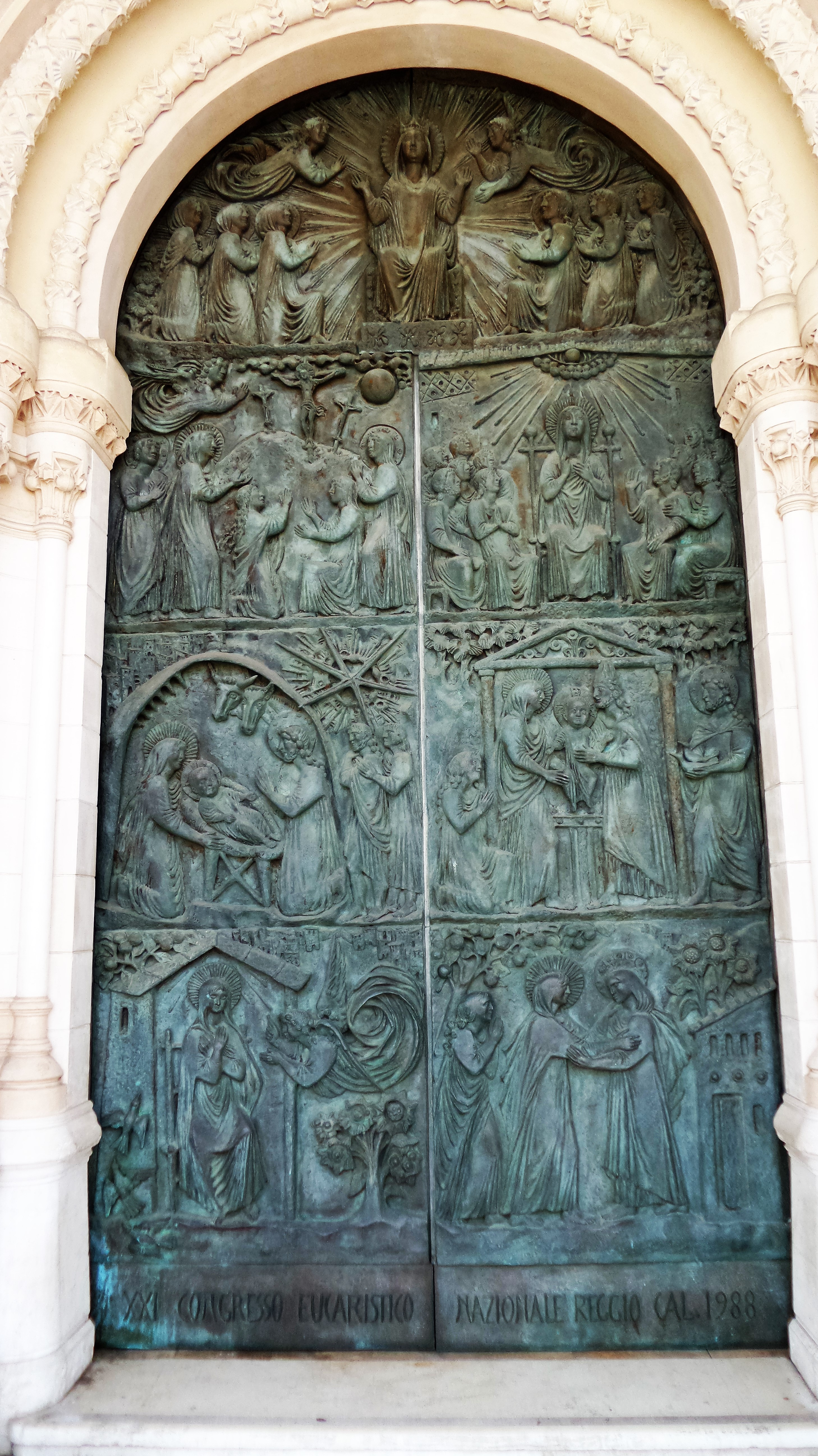 Cathedral (Reggio Calabria) - interior